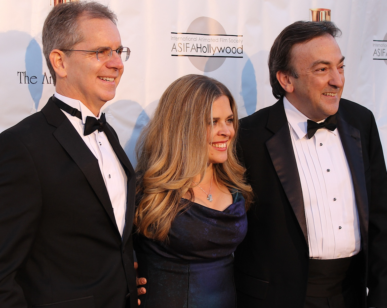 The "Frozen" team Chris Buck, Jennifer Lee, and producer Peter Del Vecho at the 41st Annual Annie Awards.